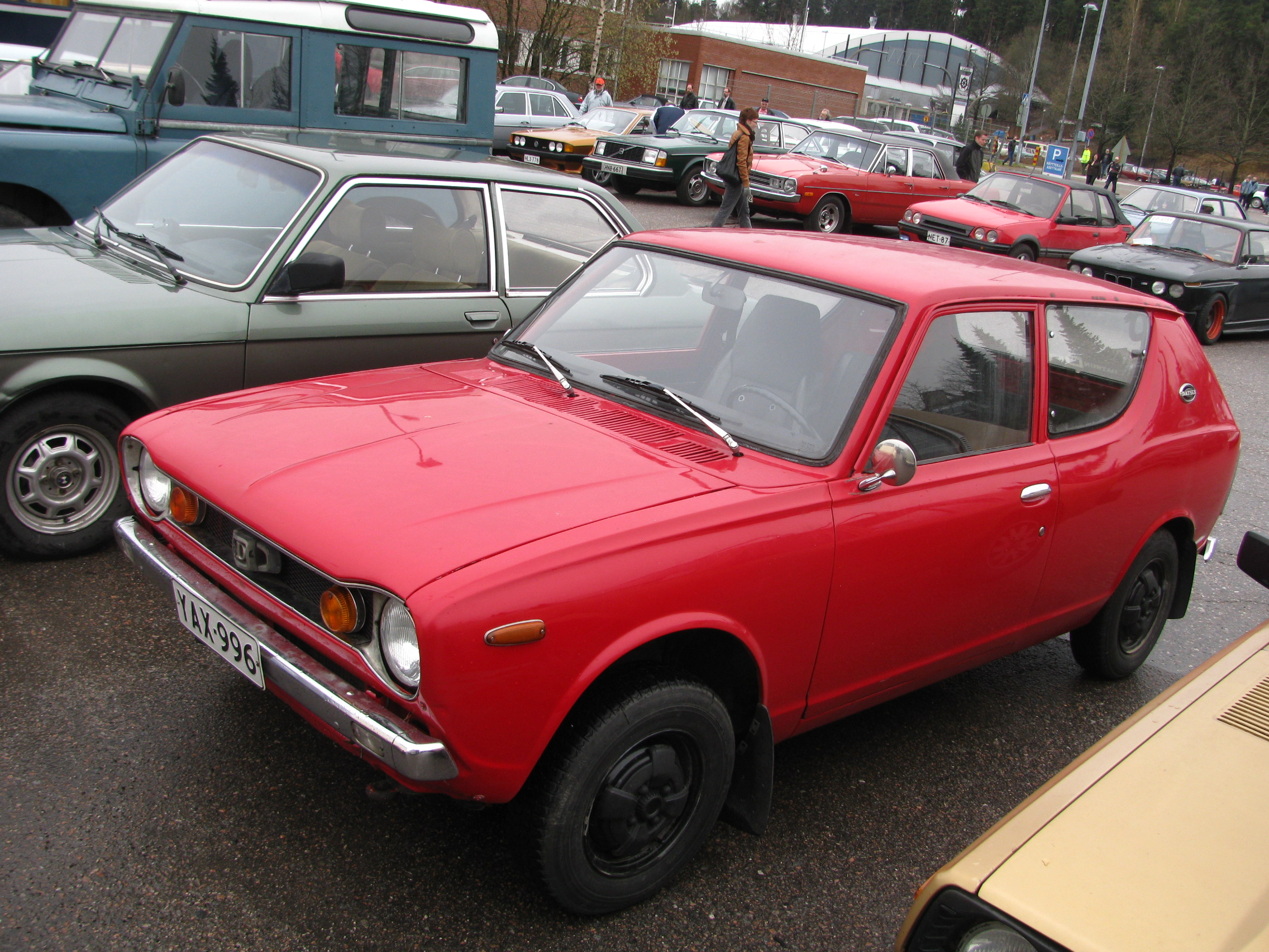 Datsun 100A estate wagon, Classic Motor Show parking lot in Lahti, Finland.